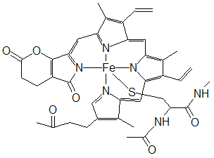 Heme-thiolate prosthetic group structur